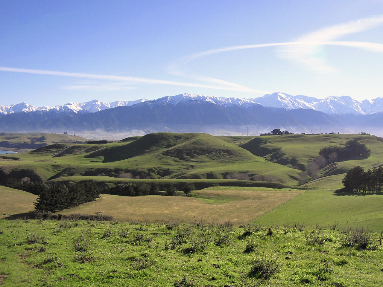 Kaikoura Peninsula and Mt. Fyffe